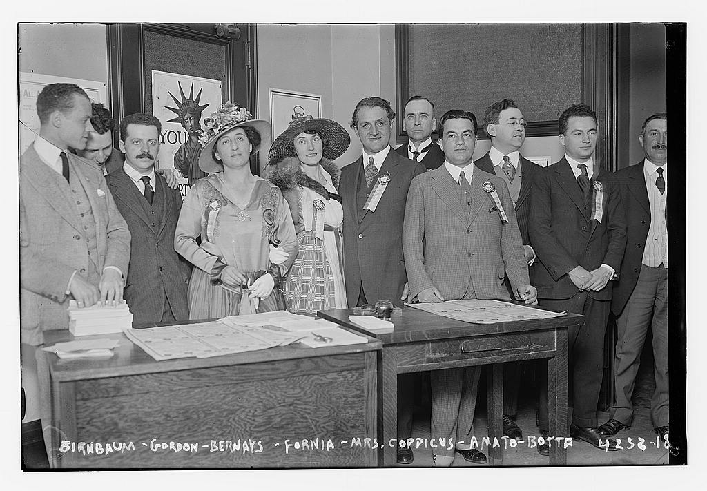 Title from data provided by the Bain News Service on the negative. Photograph shows opera singers and musicians opening the Operatic Liberty Loan Offices at Aeolian Hall, New York City on June 5, 1917. People depicted include (left to right) Harry Birnbaum, pianist Philip Gordon, publicist Edward Louis Bernays, American opera singer Rita Fornia, Mrs. Francis Charles Coppicus, wife of the general secretary of the Metropolitan Opera; Italian opera singers Pasquale Amato and Luca Botta, H.M. Wykes, member of the Liberty Bond Publicity Committee, Gordon Kay, F.C. Schang and Fred C. Haas. (Source: Flickr Commons project, 2015 and The New York Times, June 5, 1917) Forms part of: George Grantham Bain Collection (Library of Congress).